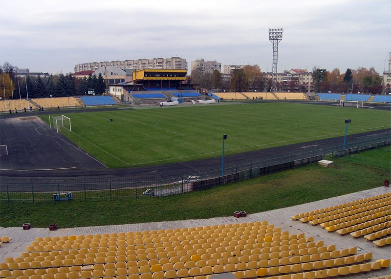 Avangard Stadium, Lutsk